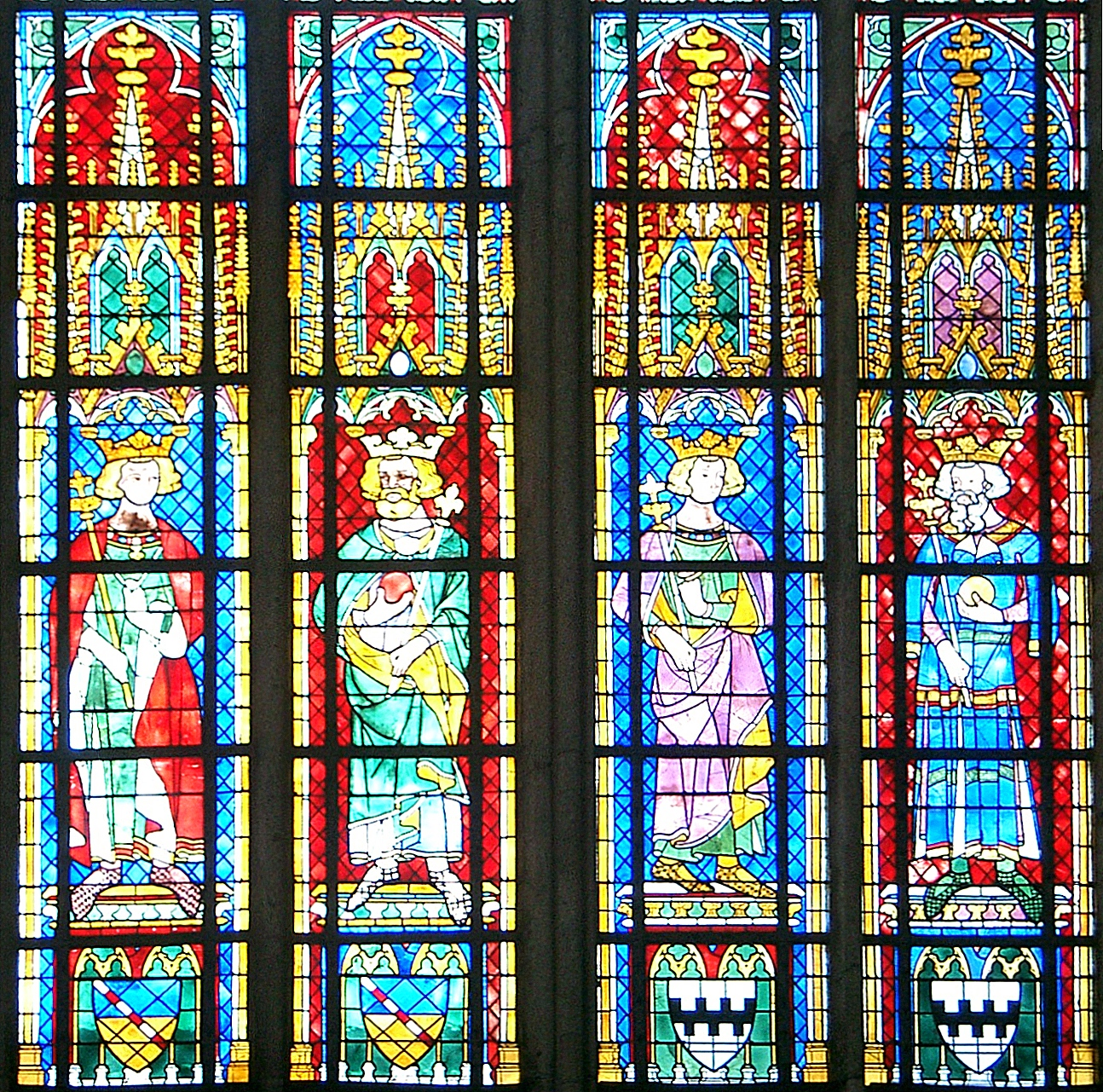 Cologne Cathedral, Germany. Street address: Domkloster 4 Stained glass window in clerestory of the choir "Königszyklus", created around 1300.